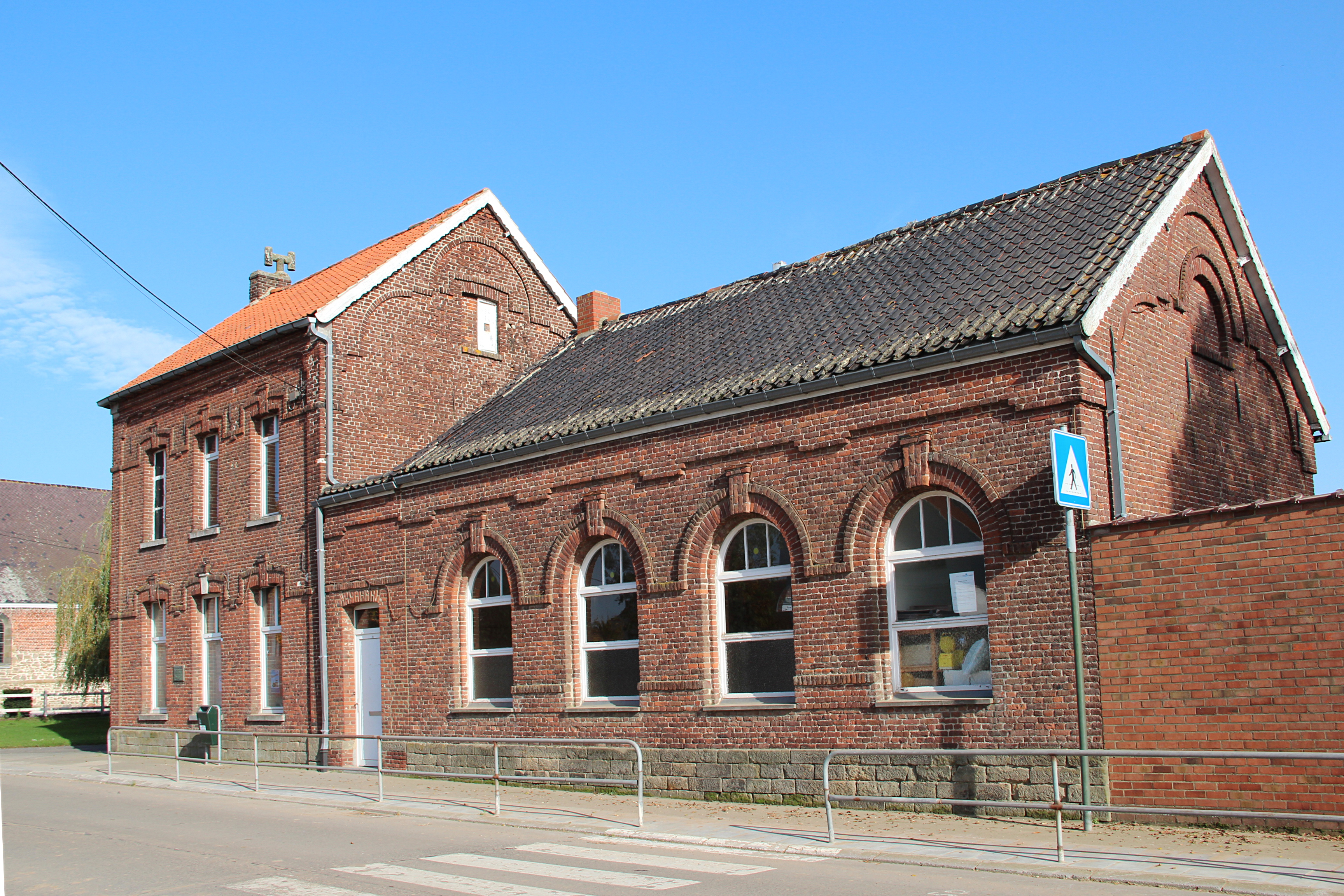 Baugnies (Belgium), the previous elementary school.